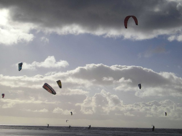 Ainsdale Beach. View South West across Irish Sea. North Wales mountains (just) visible on horizon left.